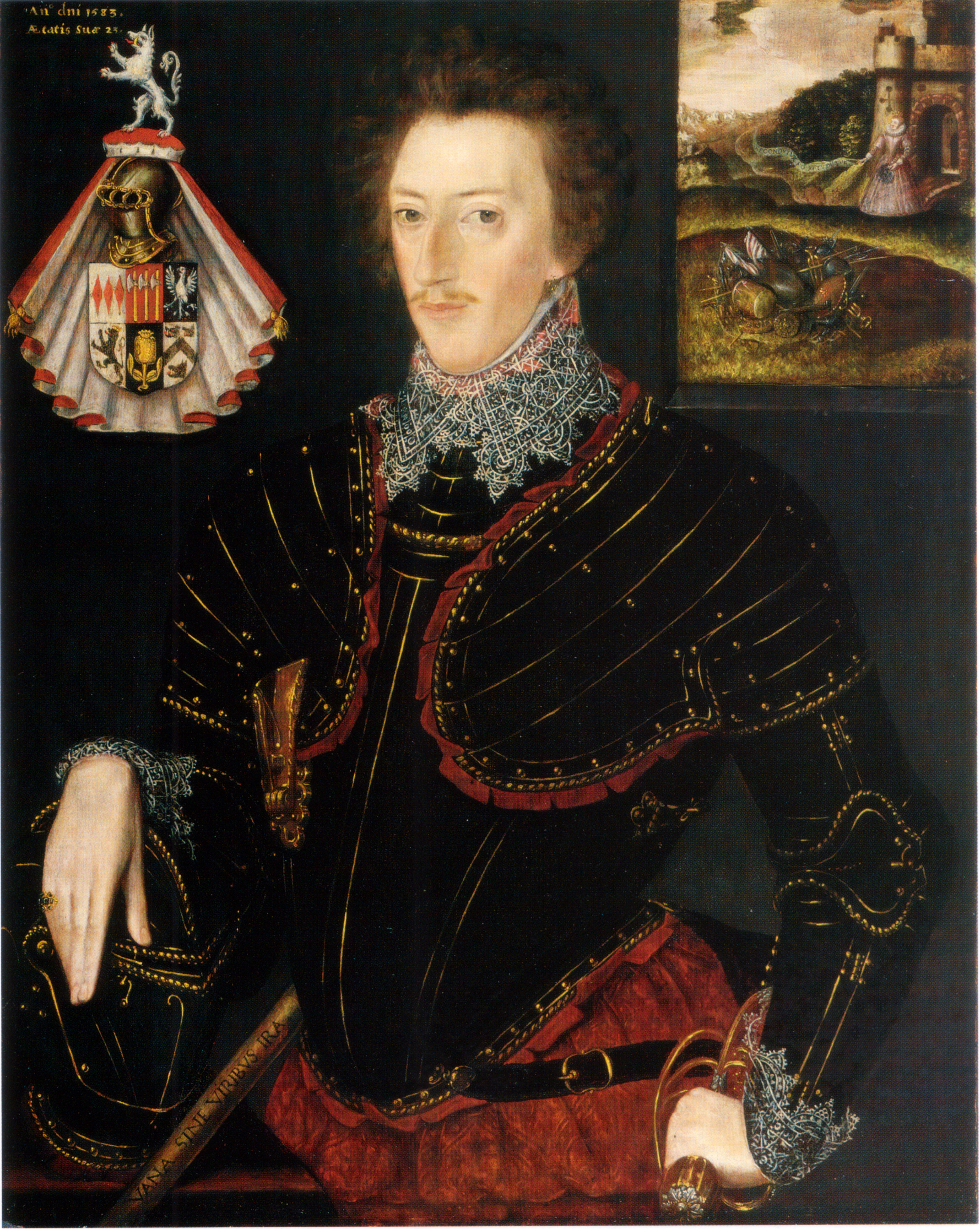 Sir Edward Hoby (1560-1617), oil on panel, 953x756 mm, National Portrait Gallery, London (NPG 1974).